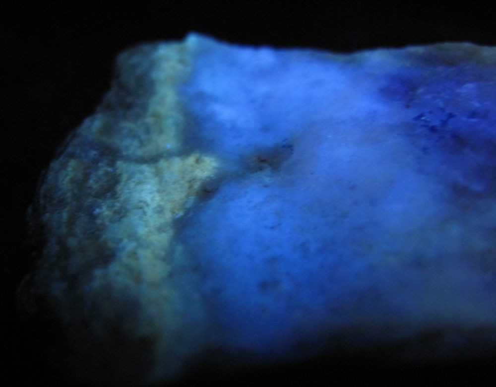 Elpasolite, Fluorite, Microcline (Var: Amazonite), Dimensions: 7 cm x 3 cm x 1 cm Locality: Morefield Mine (Morefield pegmatite), Winterham, Amelia Co., Virginia, USA Original description: XRD samples of blue-violet fluorecent alumino-fluoride material turn out to be elpasolite & the crust a mixture of fluorite & apatite fluorescing cream/white also has micro xls of ralstonite & thomsenolite, a patch of purple elpasolite and the amazonite marker. (7x3x1cm) From the Morefield yard, May/2002. Collector & owner MWylie Photo by Shaun Mackey